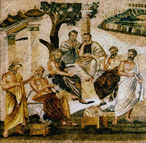 Ancient Academy/ Academy of Plato. Mosaic from Pompeii, now in the Museo Archeologico Nazionale (Naples).